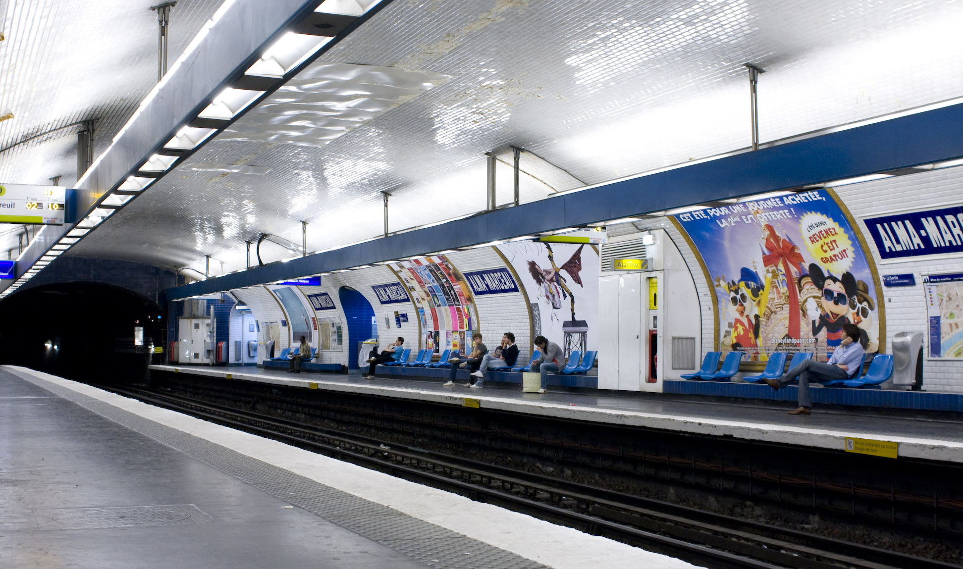 Alma Marceau station of Paris Metro